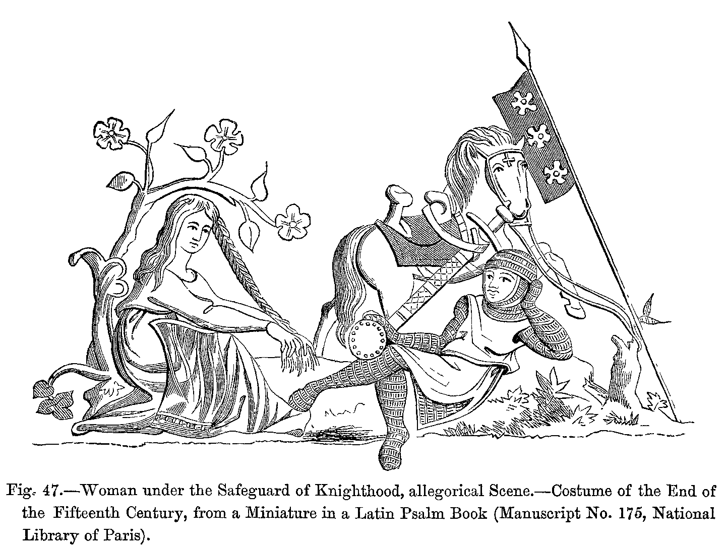 Woman under the Safeguard of Knight hood, allegorical Scene.--Costume of the End of the Fifteenth Century, from a Miniature in a Latin Psalm Book (Manuscript No. 175, National Library of Paris).